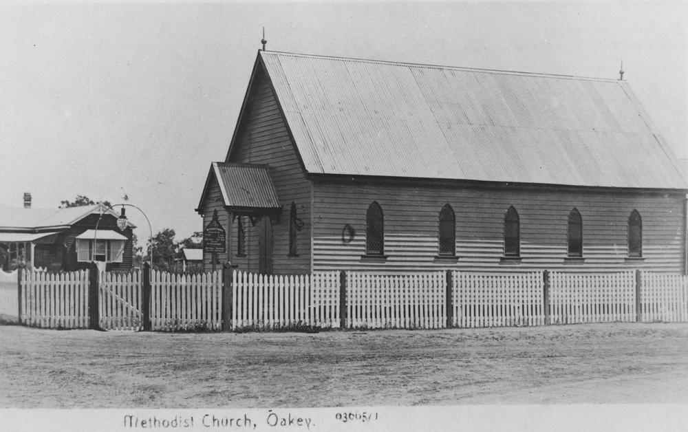 Methodist Church, Oakey, ca 1912. Title from caption. The church was built in 1910. The minister was Rev. W.H. Leembrugger. (Information supplied with photograph).